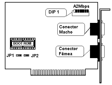 Lantastic 2 Mbps network card